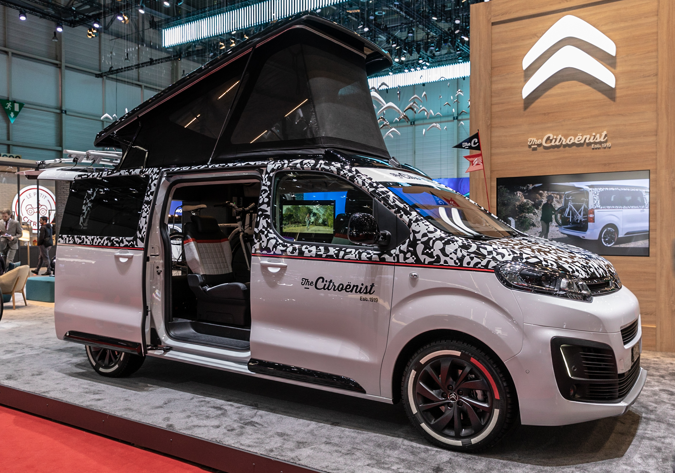 Citroën SpaceTourer The Citroënist Concept at Geneva International Motor Show 2019, Le Grand-Saconnex